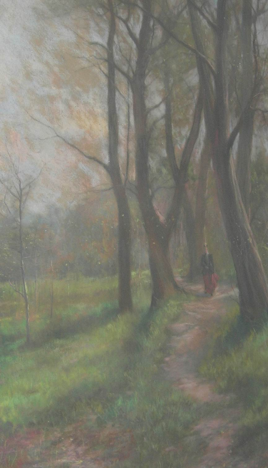 partial view: in the Viennese Prater